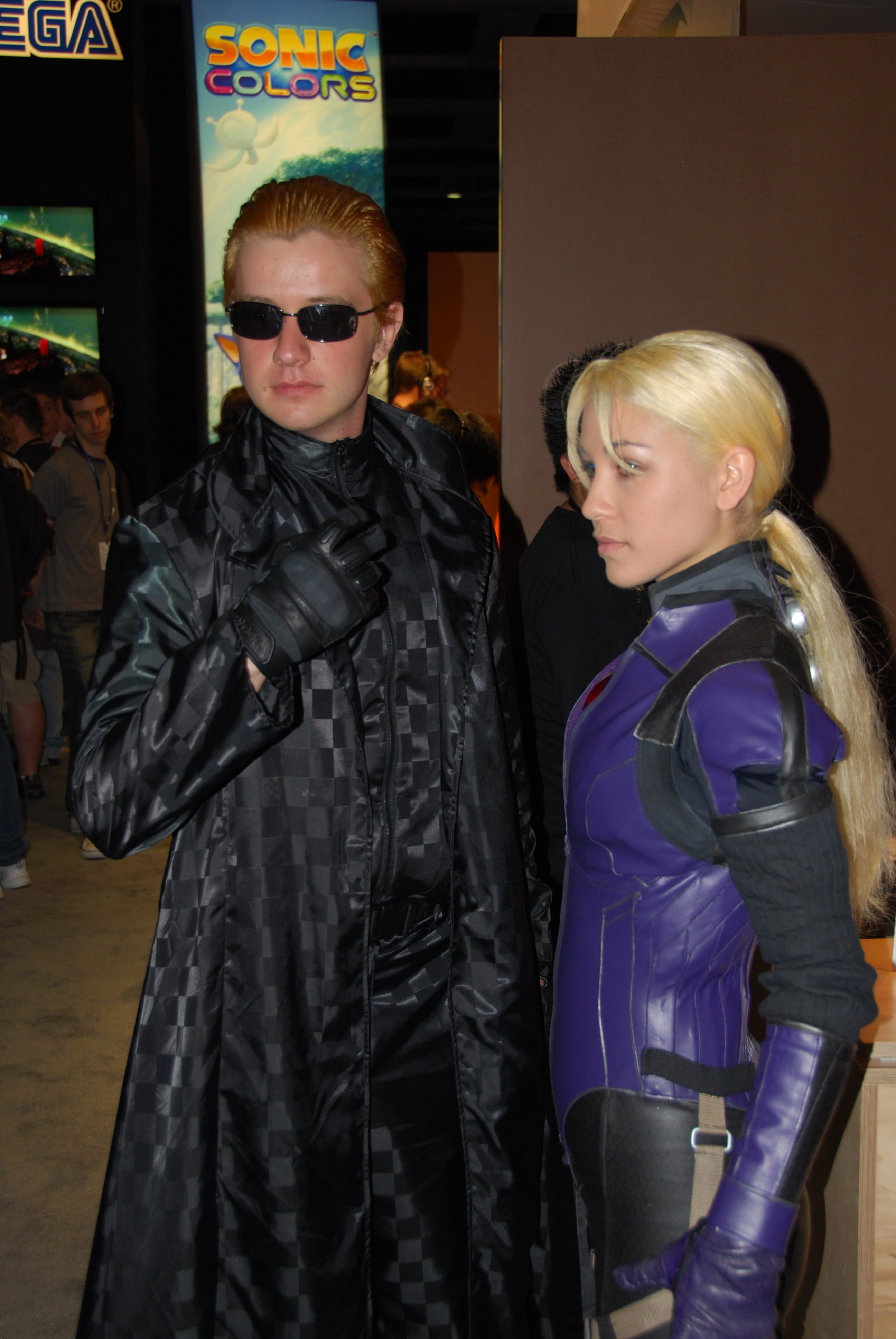 Cosplay of Resident Evil.